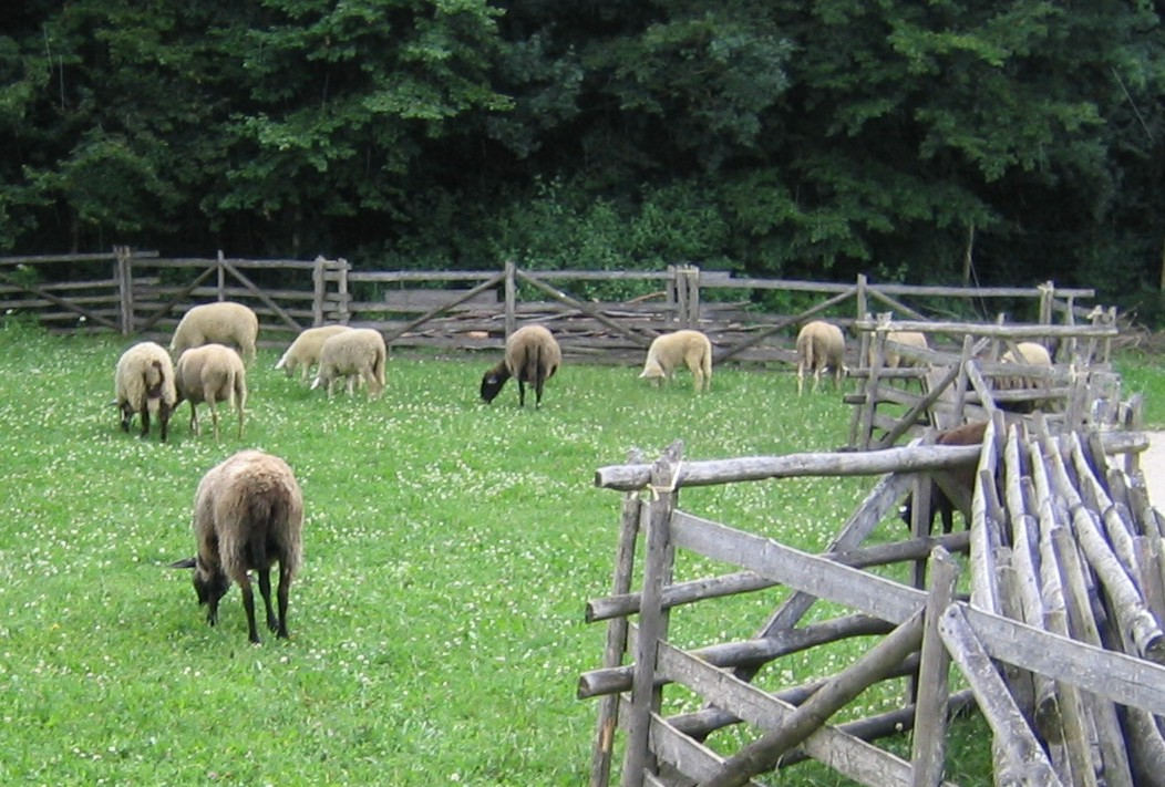 Merino at the Freilichtmuseum Neuhausen ob Eck